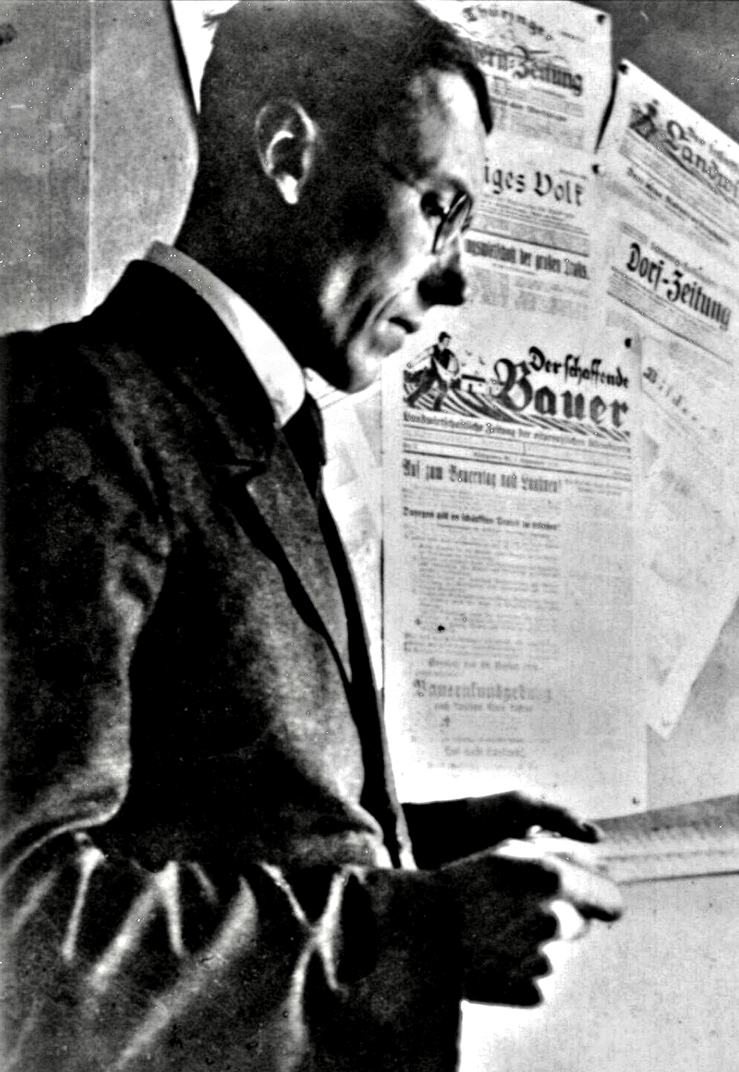 Ernst Putz (1896–1933), youngest member of German parliament during Weimar Republic between 1927 and 1933. He died by suicide during incarceration by Nationalsocialists.